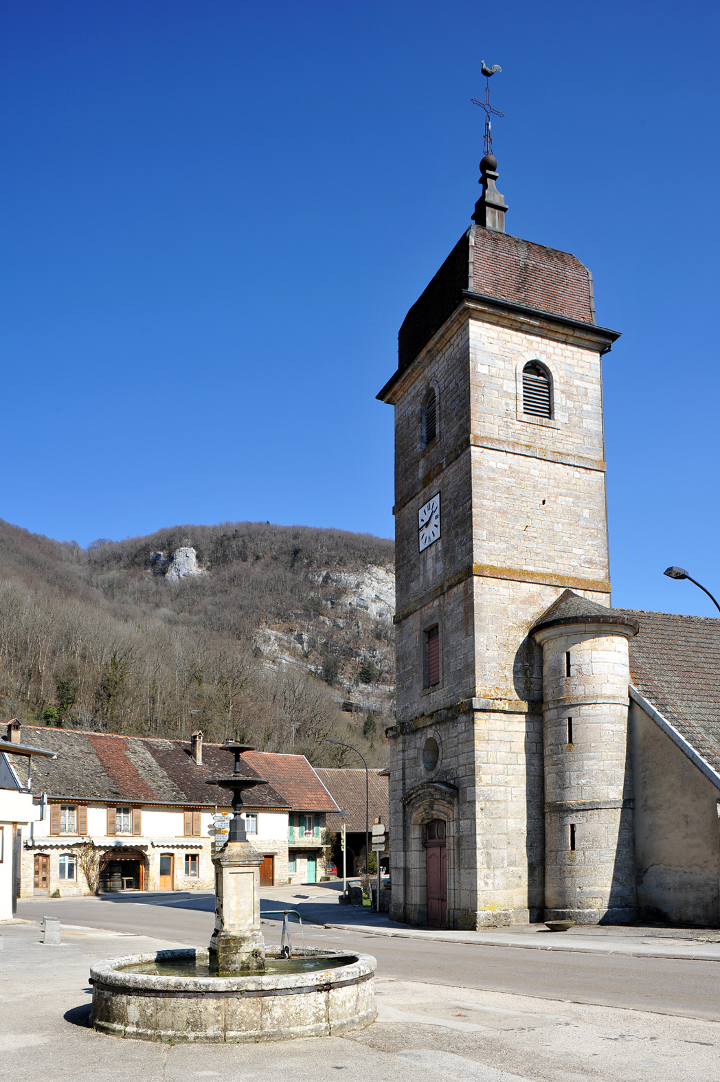 Church and fountain of Nans-sous-Sainte-Anne; Franche-Comté, France.